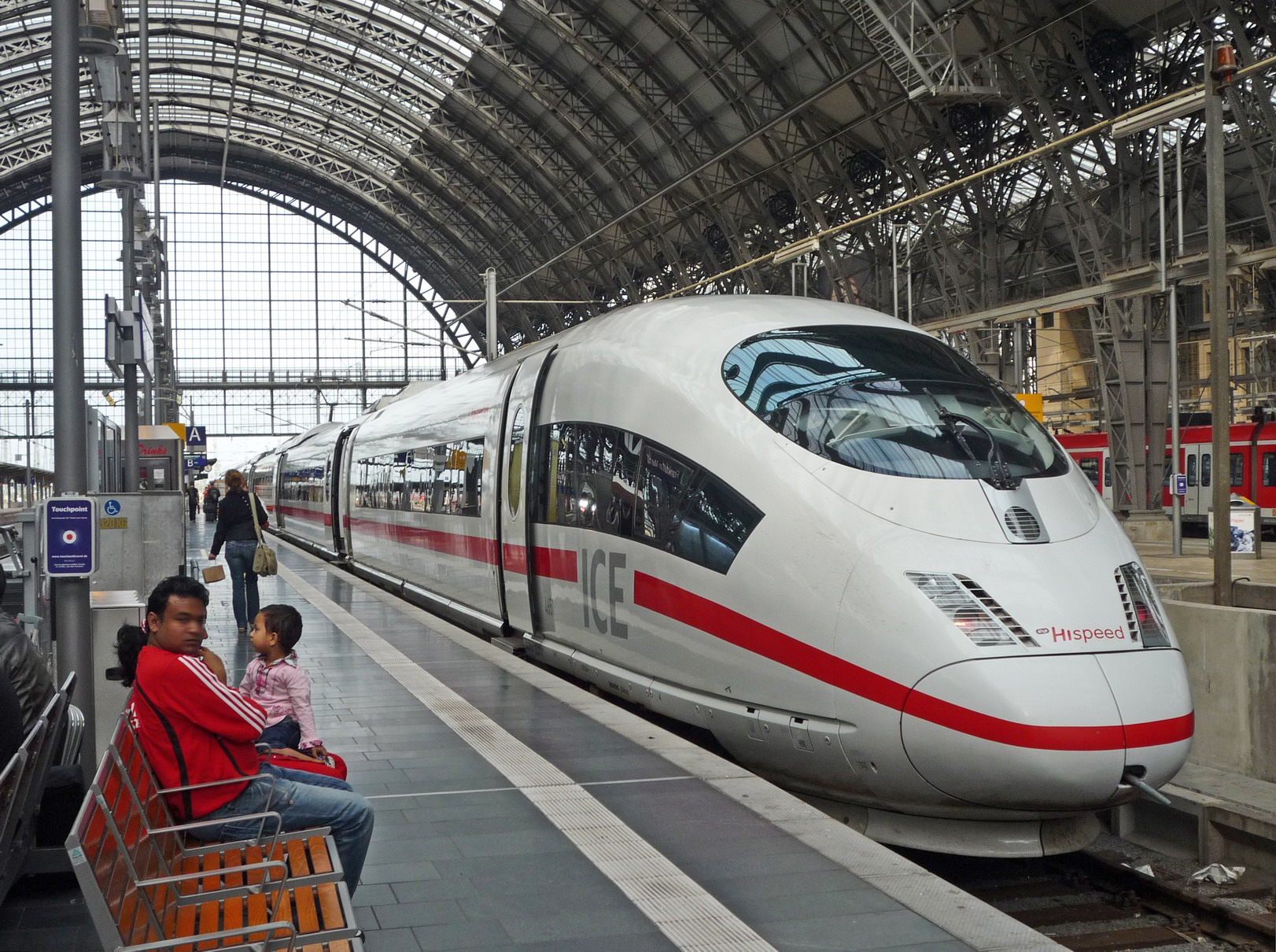 Frankfurt on Main central railway station with ICE3M-Netherlands